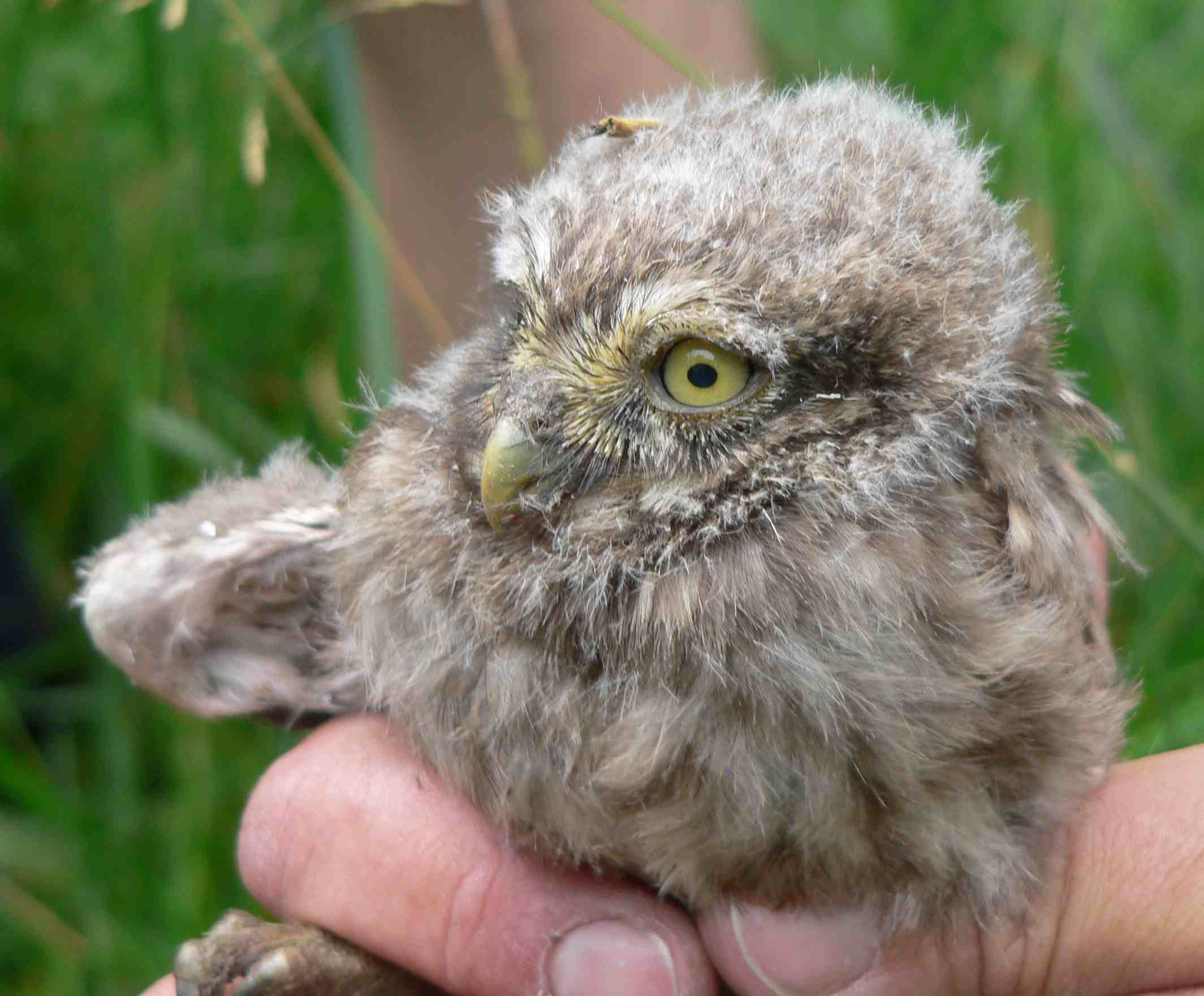 Little owl